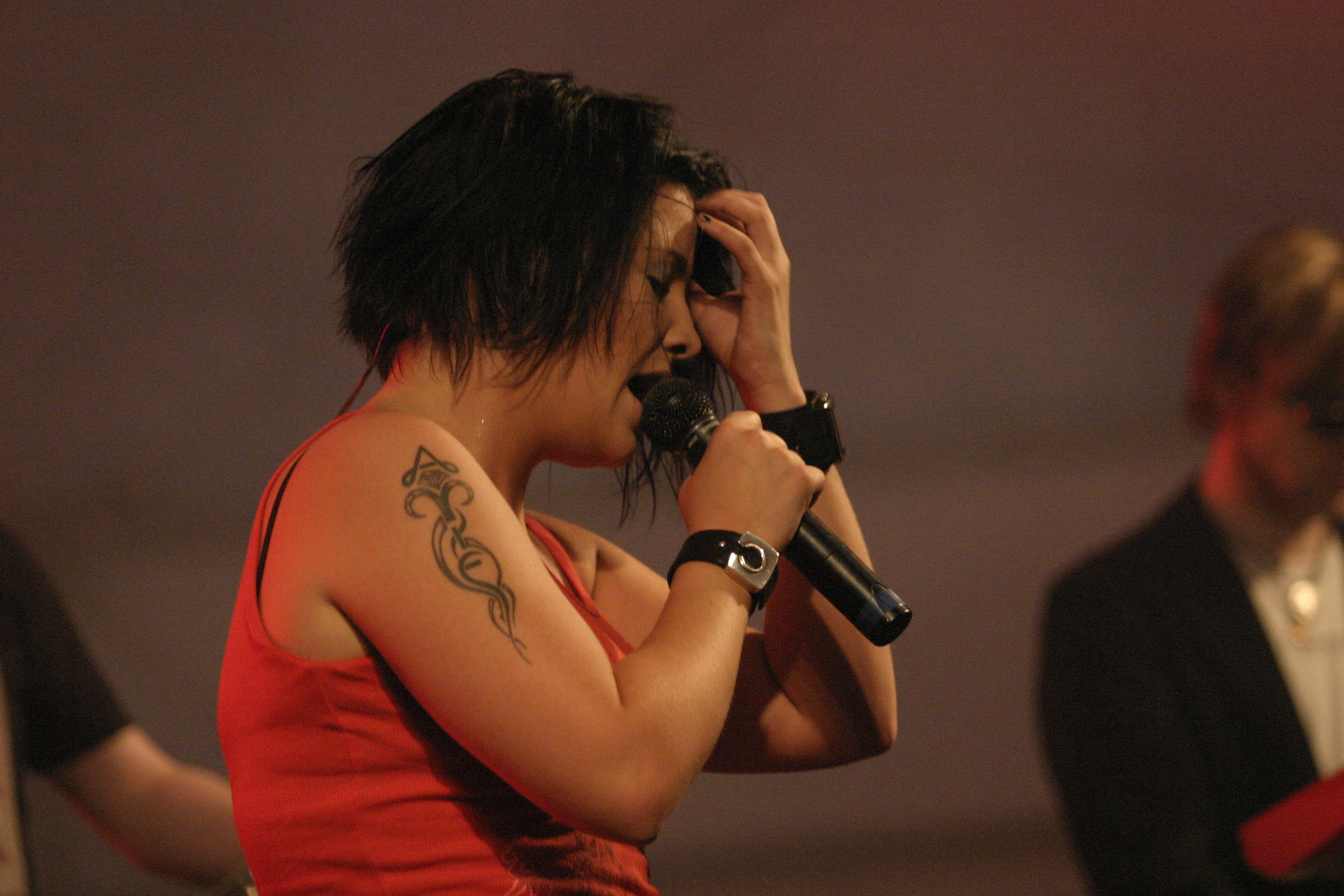 Hanna Pakarinen in Vihreät Niityt music festival in the summer 2007.